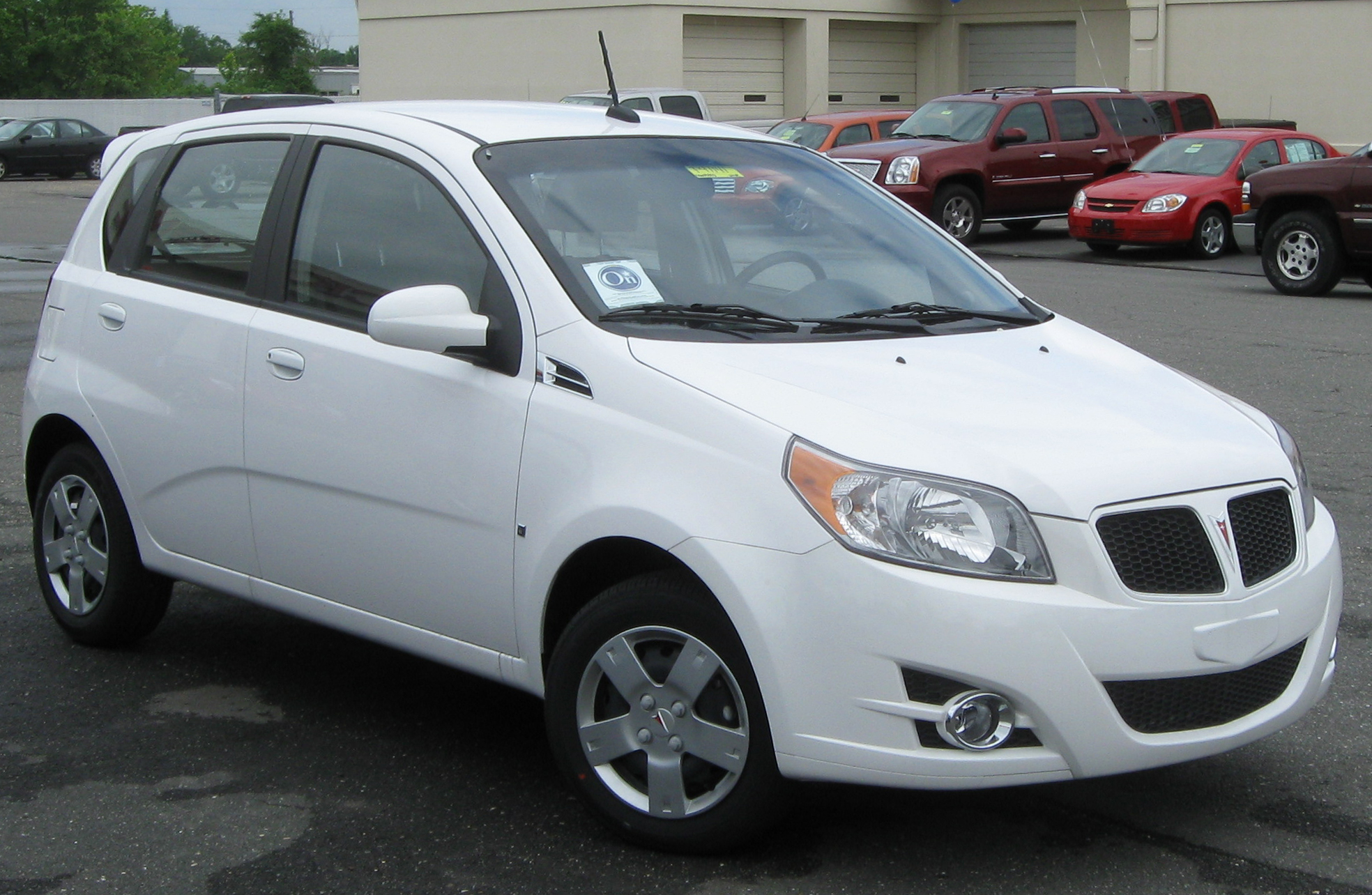 2009 Pontiac G3 photographed in Brandywine, Maryland, USA.